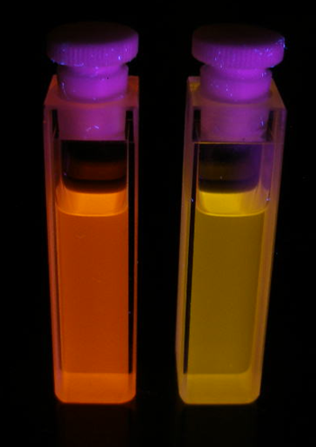 This is an image of photoluminescent polythiophenes in chloroform solution. They glow different colors because of differing effective conjugation lengths.